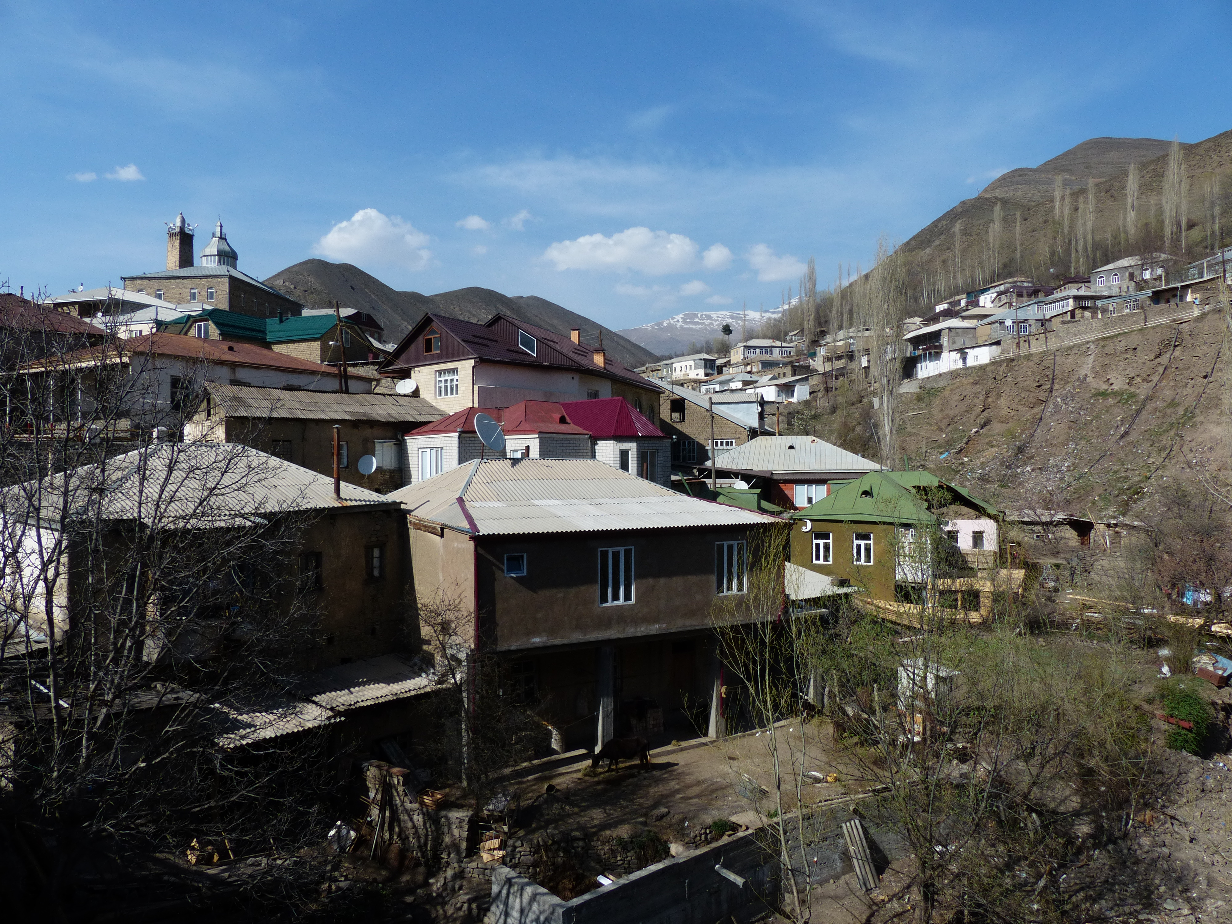 The village of Rutul, Russian Federation